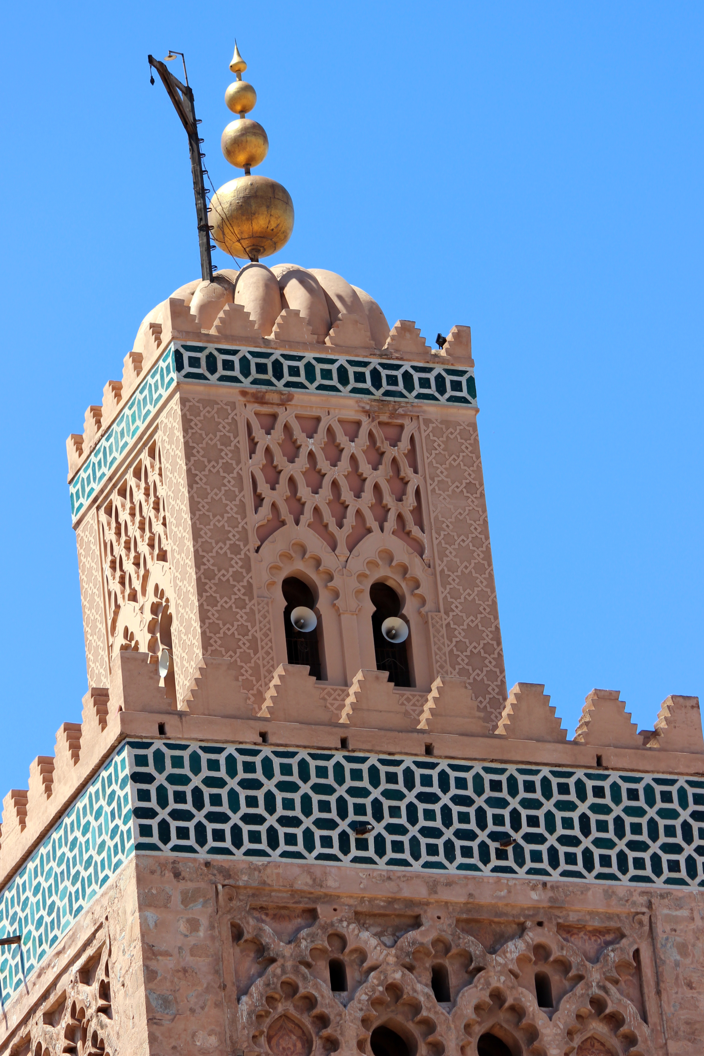 Koutoubia Mosque, in Marrakesh, Morocco